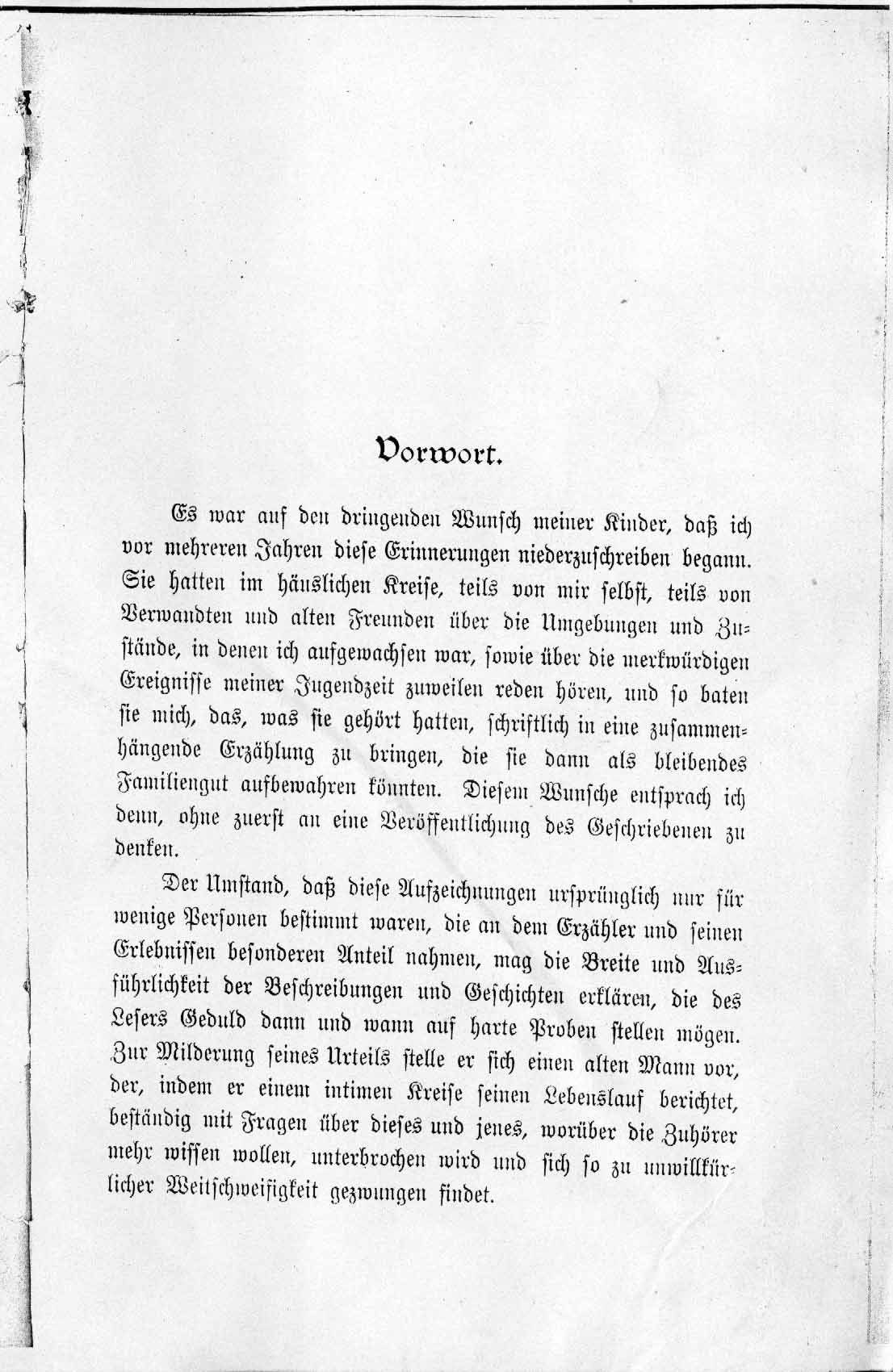 First page of the Vorwort from the 1906 Ausgabe: A (temporary?) substitute for the corresponding page from the 1911 Volksausgabe which I do not have at hand.